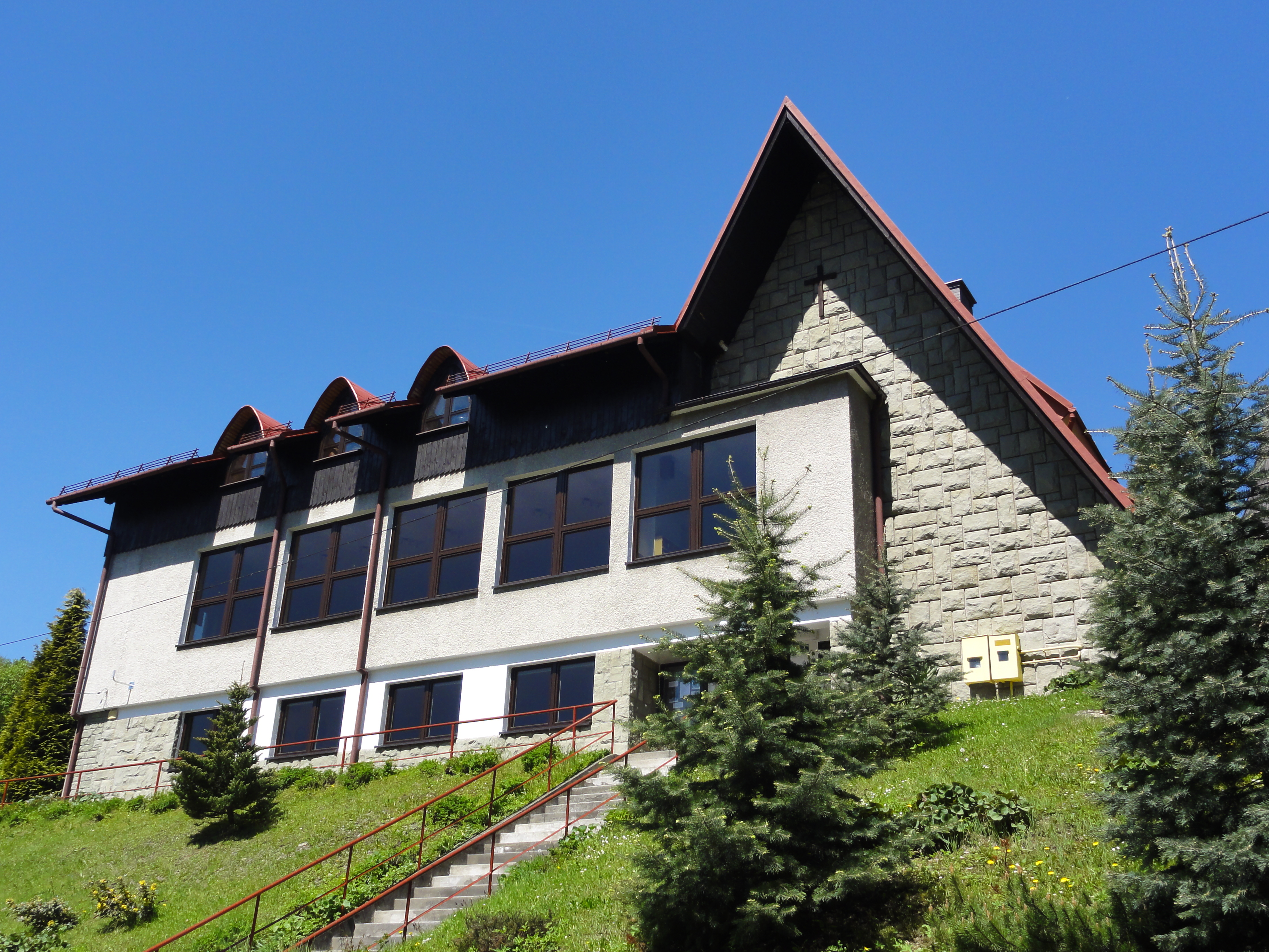 Lutheran church in Wisła-Czarne